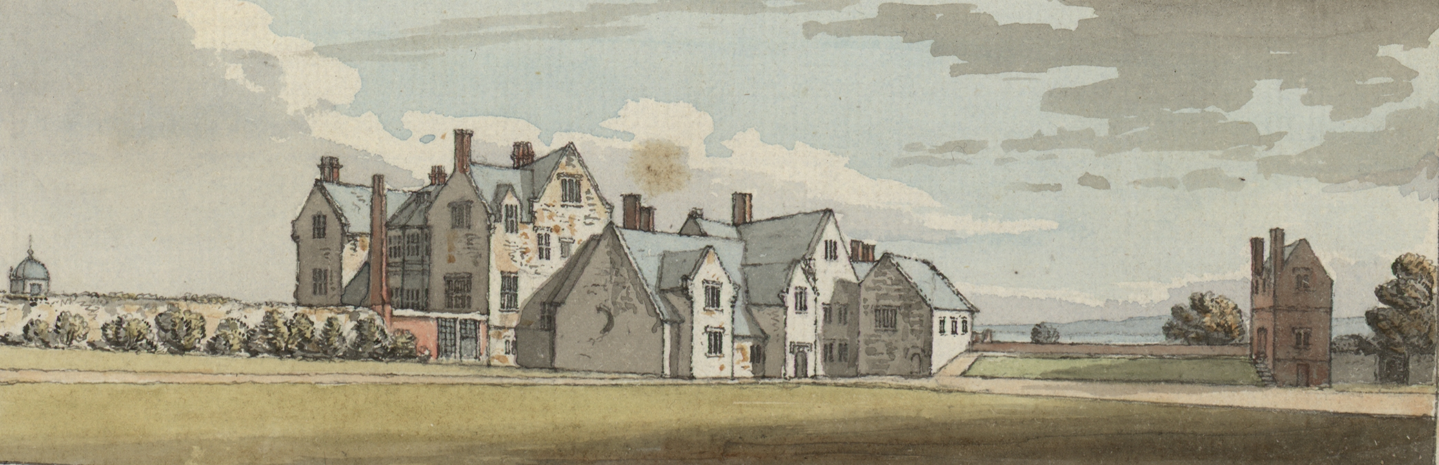 An image from a set of 8 extra-illustrated volumes of A tour in Wales by Thomas Pennant (1726-1798) that chronicle the three journeys he made through Wales between 1773 and 1776. These volumes are unique because they were compiled for Pennant's own library at Downing. This edition was produced in 1781. The volumes include a number of original drawings by Moses Griffiths, Ingleby and other well known artists of the period. Thomas Pennant (1726-1798)